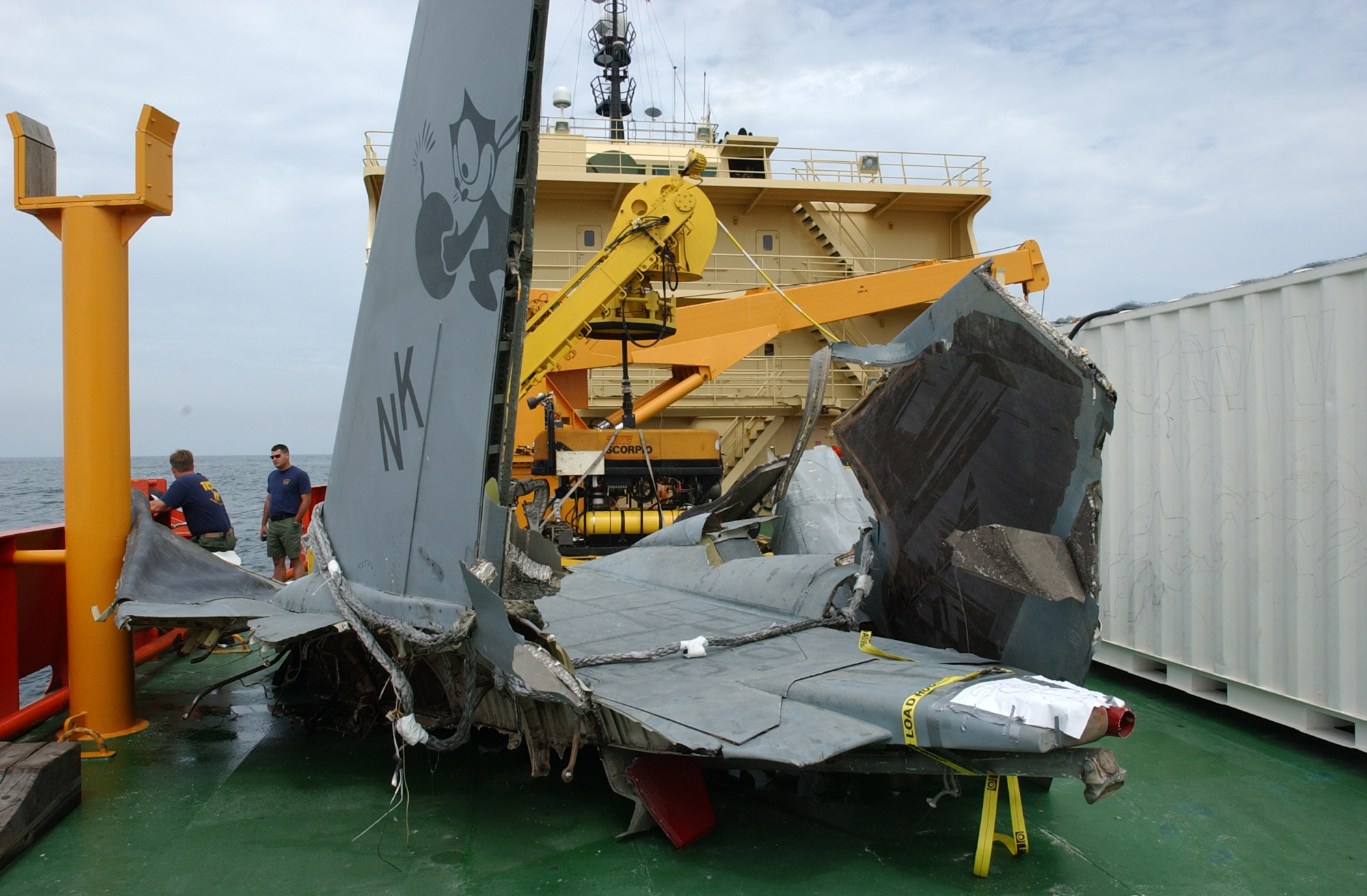 Pacific Ocean (May 7, 2004) - The tail section of an F-14D Tomcat assigned to the "Tomcatters" of Fighter Squadron Thirty One (VF-31) rests secured on weather deck aboard the Military Sealift Command (MSC) special missions ship M/V Kelly Chouest. The F-14D crashed into the ocean approximately two miles west of Point Loma, Calif., during a routine training mission from USS John C. Stennis (CVN 74) after experiencing engine trouble. The aircraft was diverted to land at Naval Air Station North Island, but crashed while trying to reach the air station. U.S. Navy photo by Geoffrey Patrick. (RELEASED)